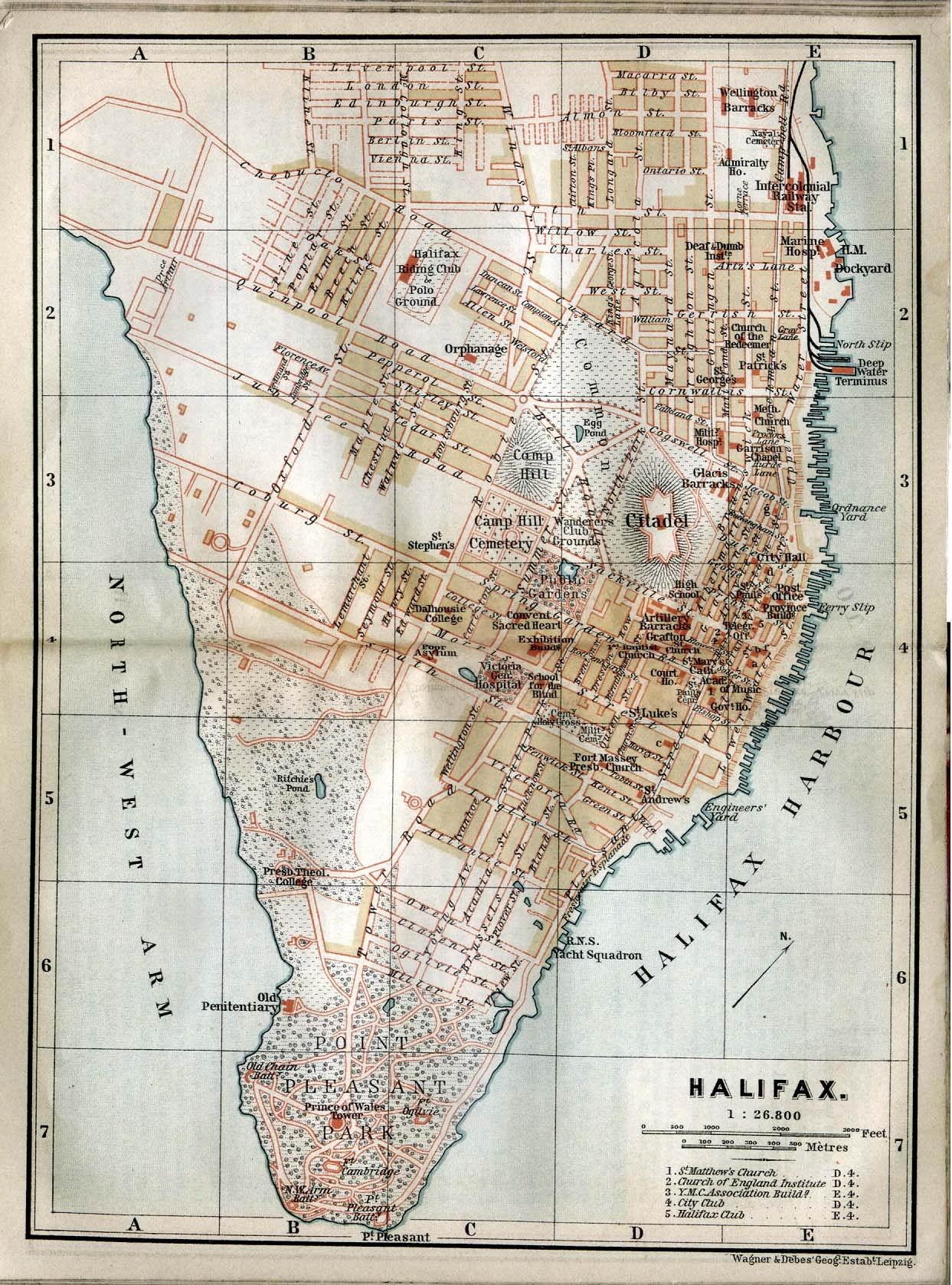 From The Dominion of Canada, with Newfoundland and an Excursion to Alaska. Handbook for Travellers, by Karl Baedeker, 1894.